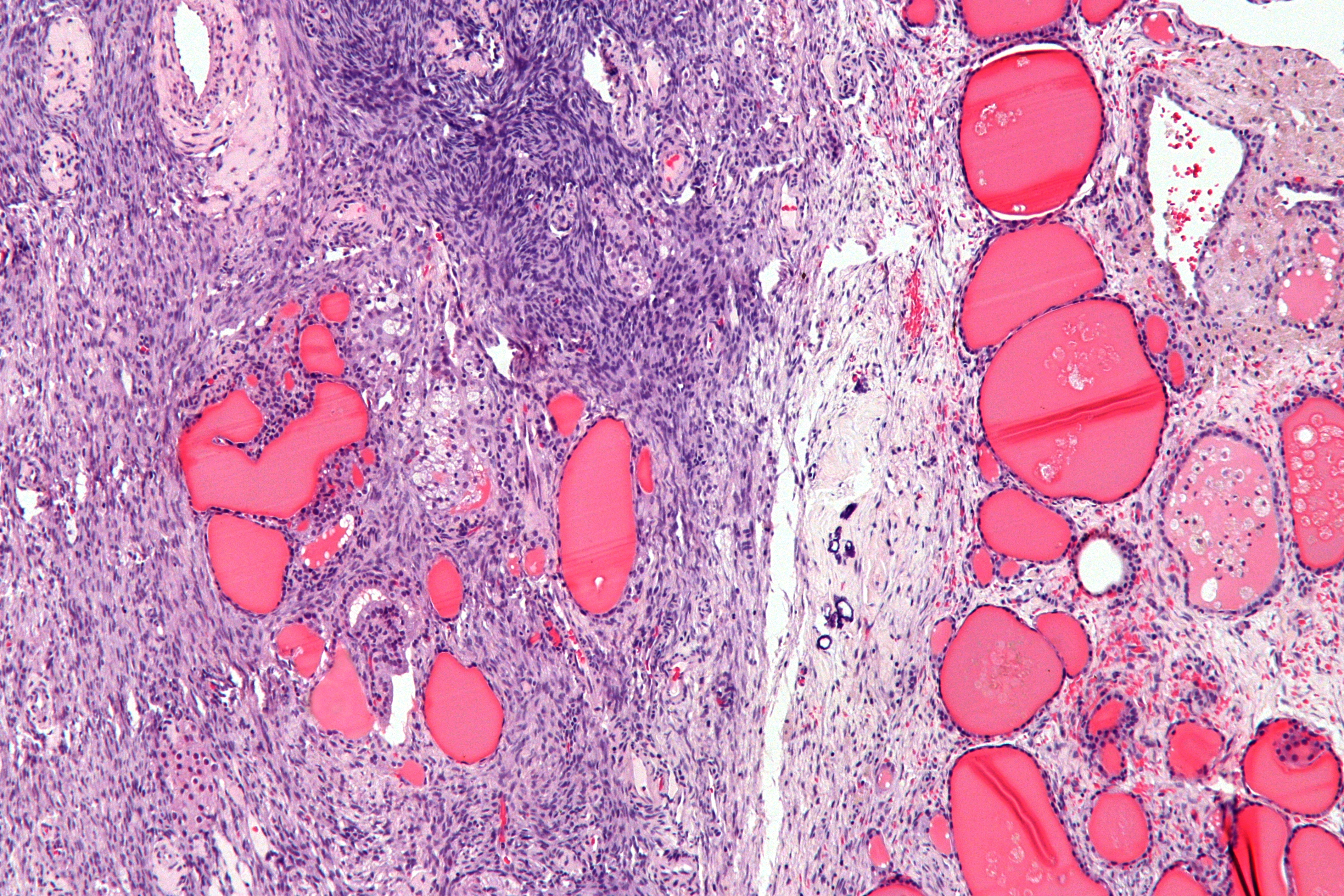 Intermediate magnification micrograph of a struma ovarii, a rare type of monodermal teratoma. H&E stain. Related images Low mag. Intermed. mag. High mag. Very high mag.